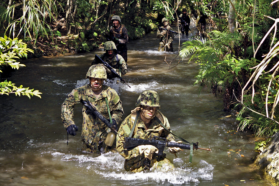 U.S. Marines and sailors run through a stream at the endurance course at the Jungle Warfare Training Center at Camp Gonsalves, Okinawa, Japan, on April 8, 2012. The Marines and sailors are assigned to Combat Logistics Regiment 37, 3rd Marine Logistics Group, 3rd Marine Expeditionary Force and Naval Mobile Construction Battalion 40, 31st Seabee Readiness Group. The course includes numerous water obstacles.